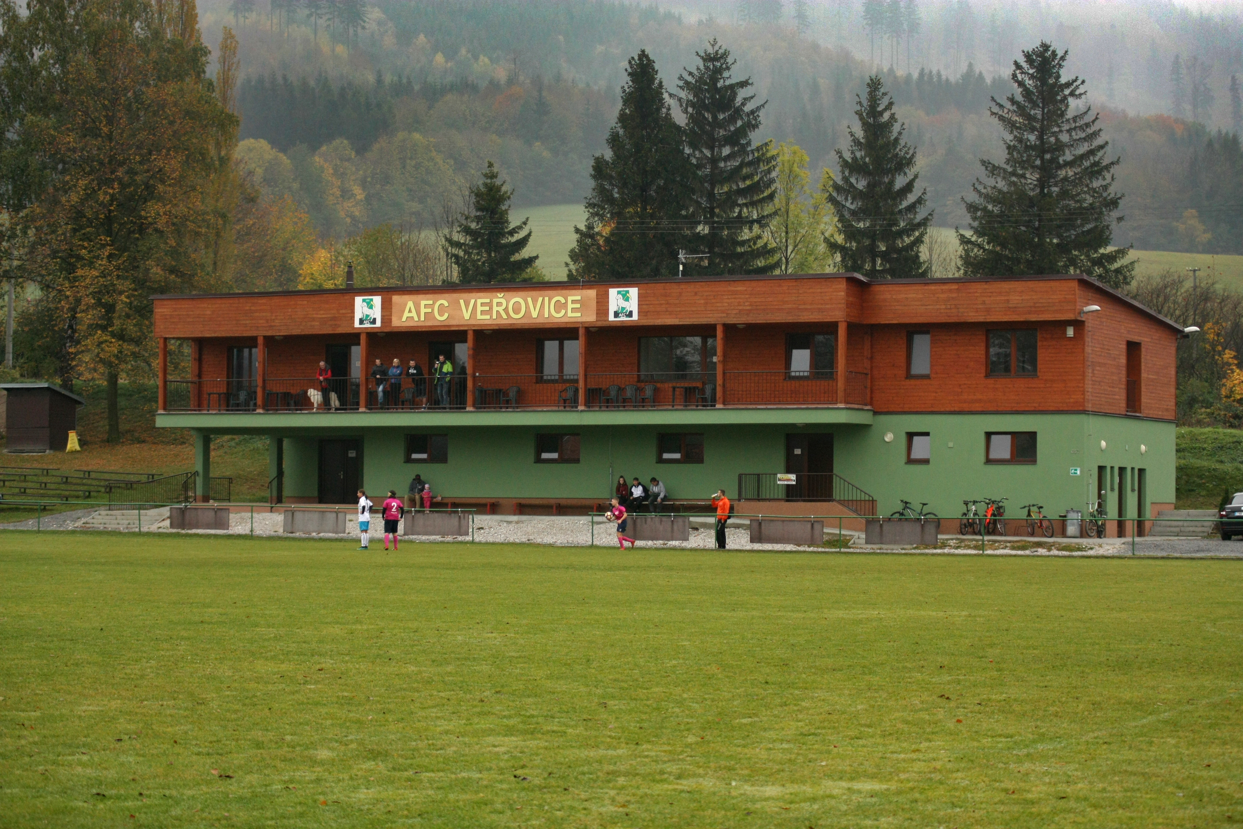 AFC Veřovice - MSK Orlová match in Moravian-Silesian women's league played on 20 October 2018